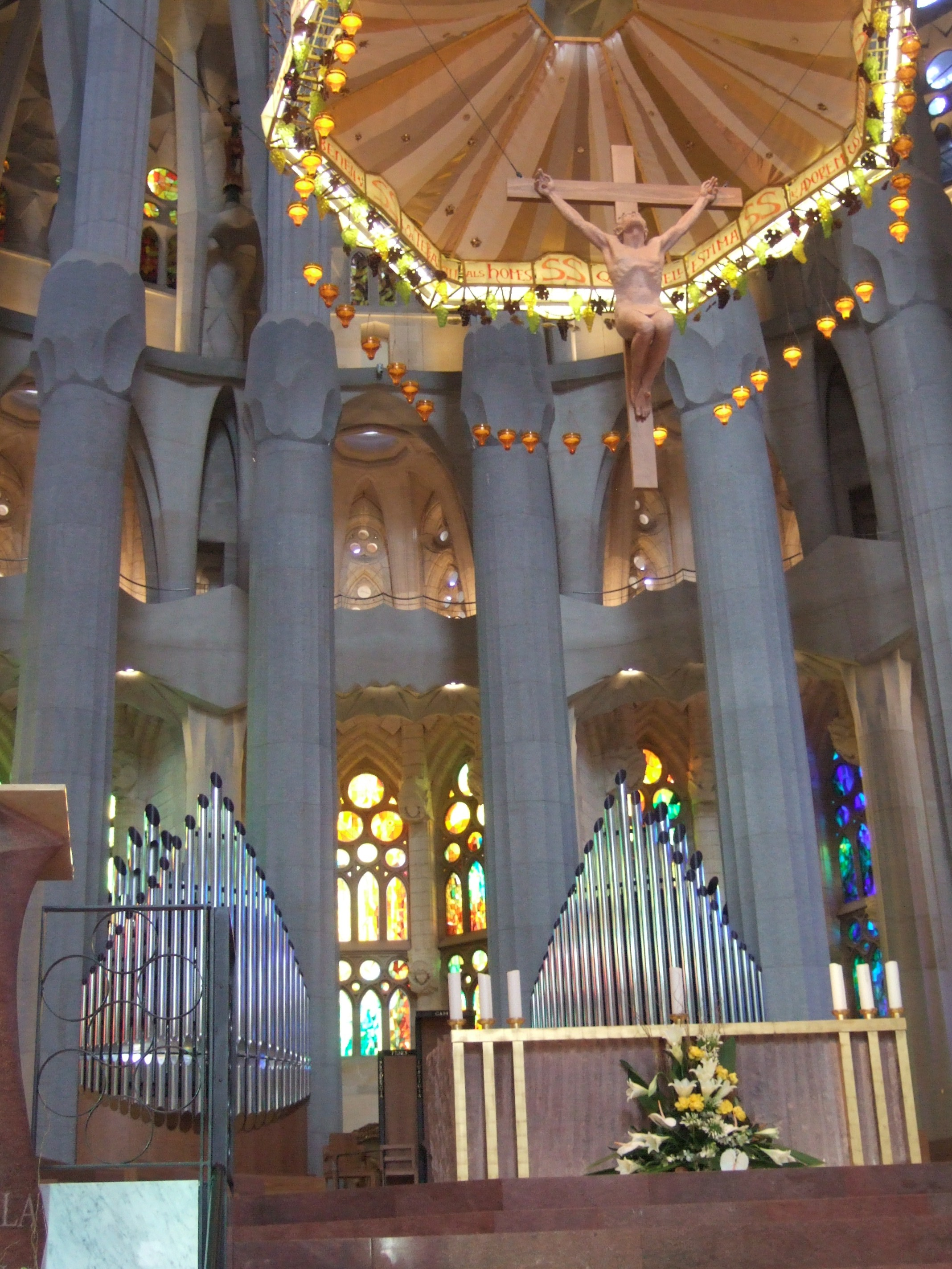 The altar of the Sagrada Familia's basilica, Barcelona